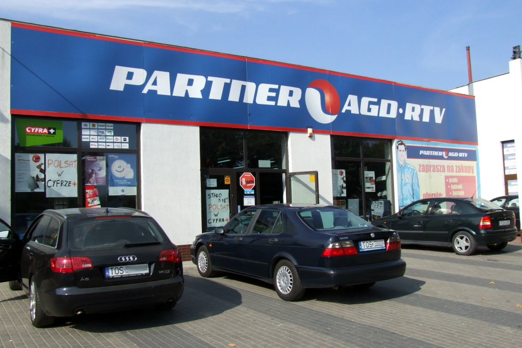 Partner AGD RTV store in Ostrowiec Swietokrzyski, Poland